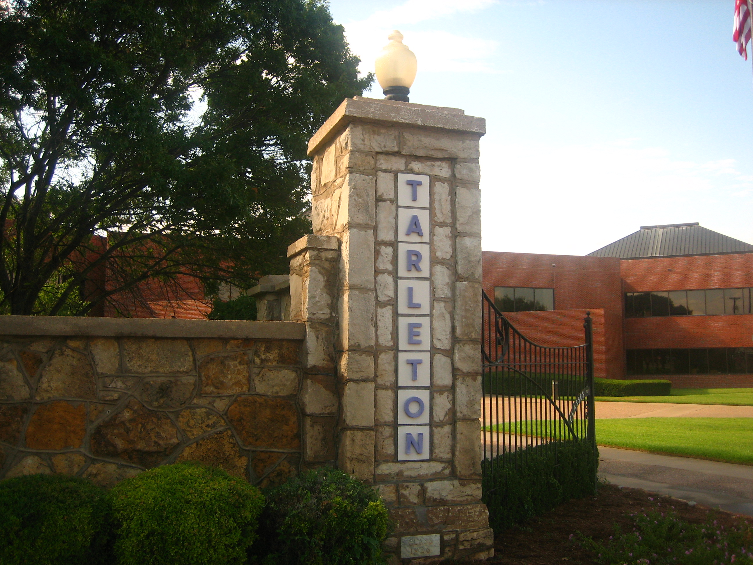 I took photo in July 2008.